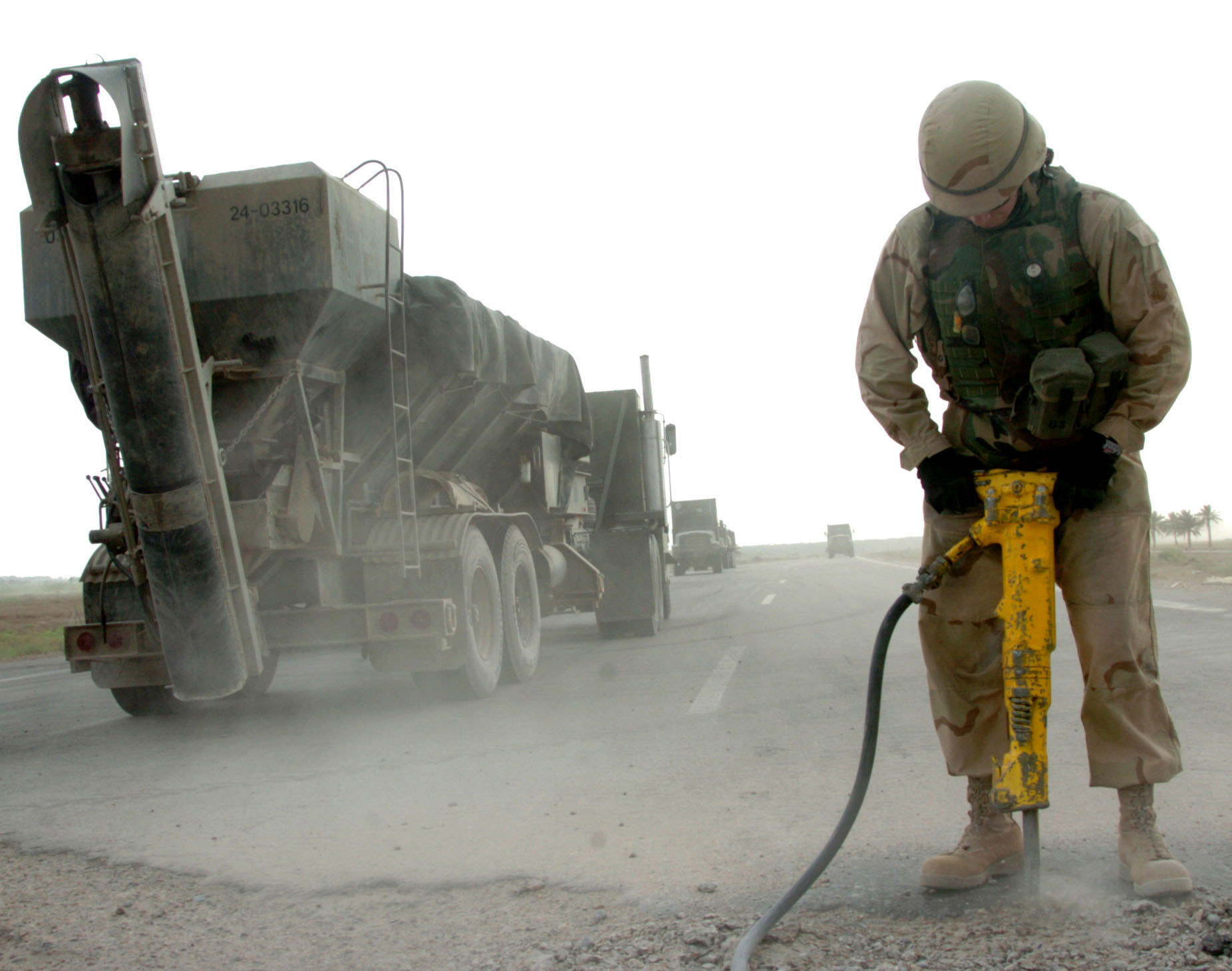 Fallujah, Iraq (May 20, 2006) - Builder 3rd Class Darin Errington breaks apart the asphalt with a jackhammer on a road repair project. Naval Mobile Construction Battalion Four Zero (NMCB-40) is providing support to Multi-National Coalition Forces throughout Iraq. U.S. Navy photo by Photographer's Mate 3rd Class John P. Curtis (RELEASED)